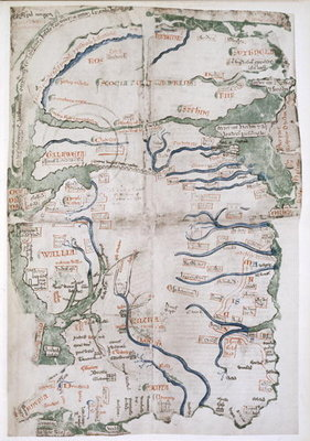 Map of Britain